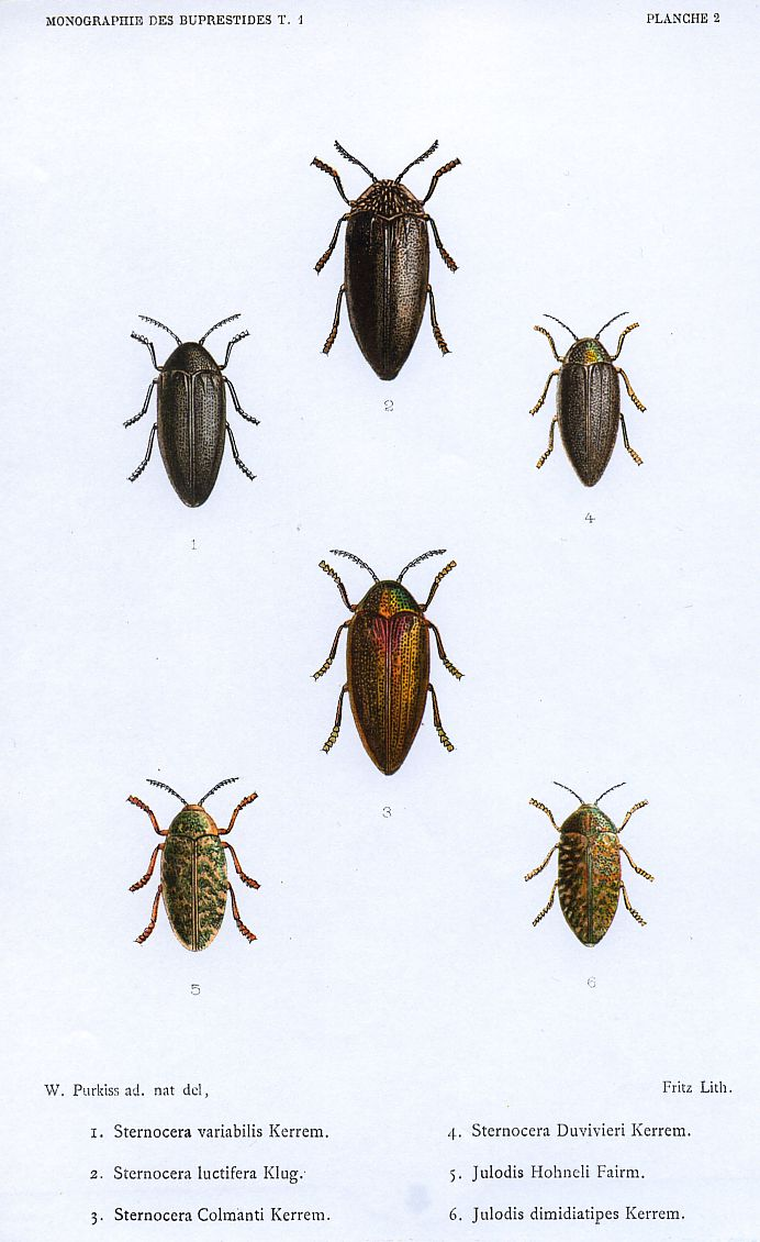 Sternocera variabilis Kerrem. = Sternocera orissa variabilis Kerremans, 1886 Sternocera luctifera Klug. = Sternocera orissa luctifera Klug, 1855 Sternocera Colmanti Kerrem. = Sternocera klugii Thomson, 1859 Sternocera Duvivieri Kerrem. = Sternocera duvivieri Kerremans, 1898 Julodis Hohneli Fairm. = Julodis hohneli Fairmaire, 1891 Julodis dimidiatipes Kerrem. = Julodis cirrosa (Schönherr, 1817)